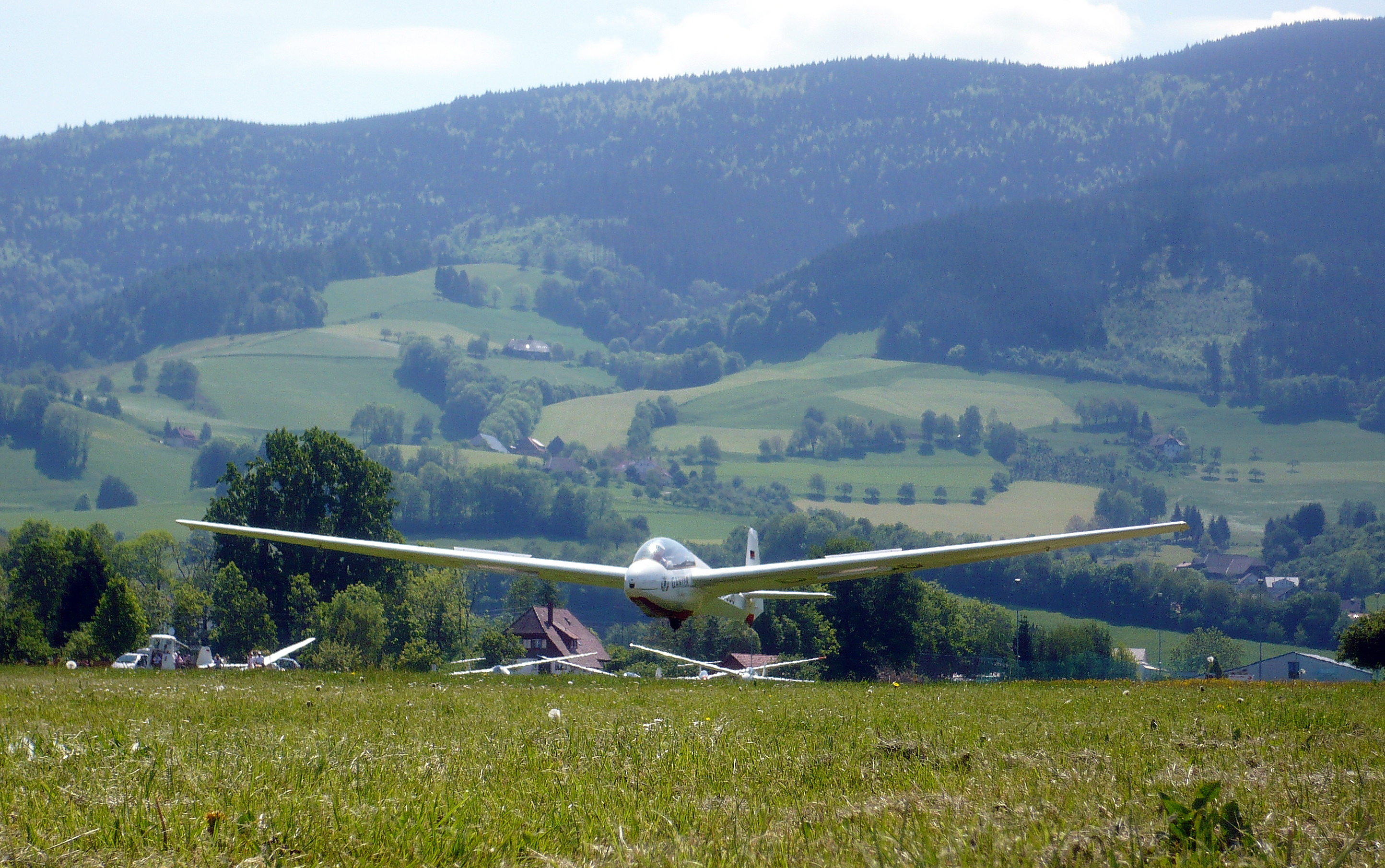 ASK13 on short final rwy36L in Kirchzarten Airfield (EDKC)